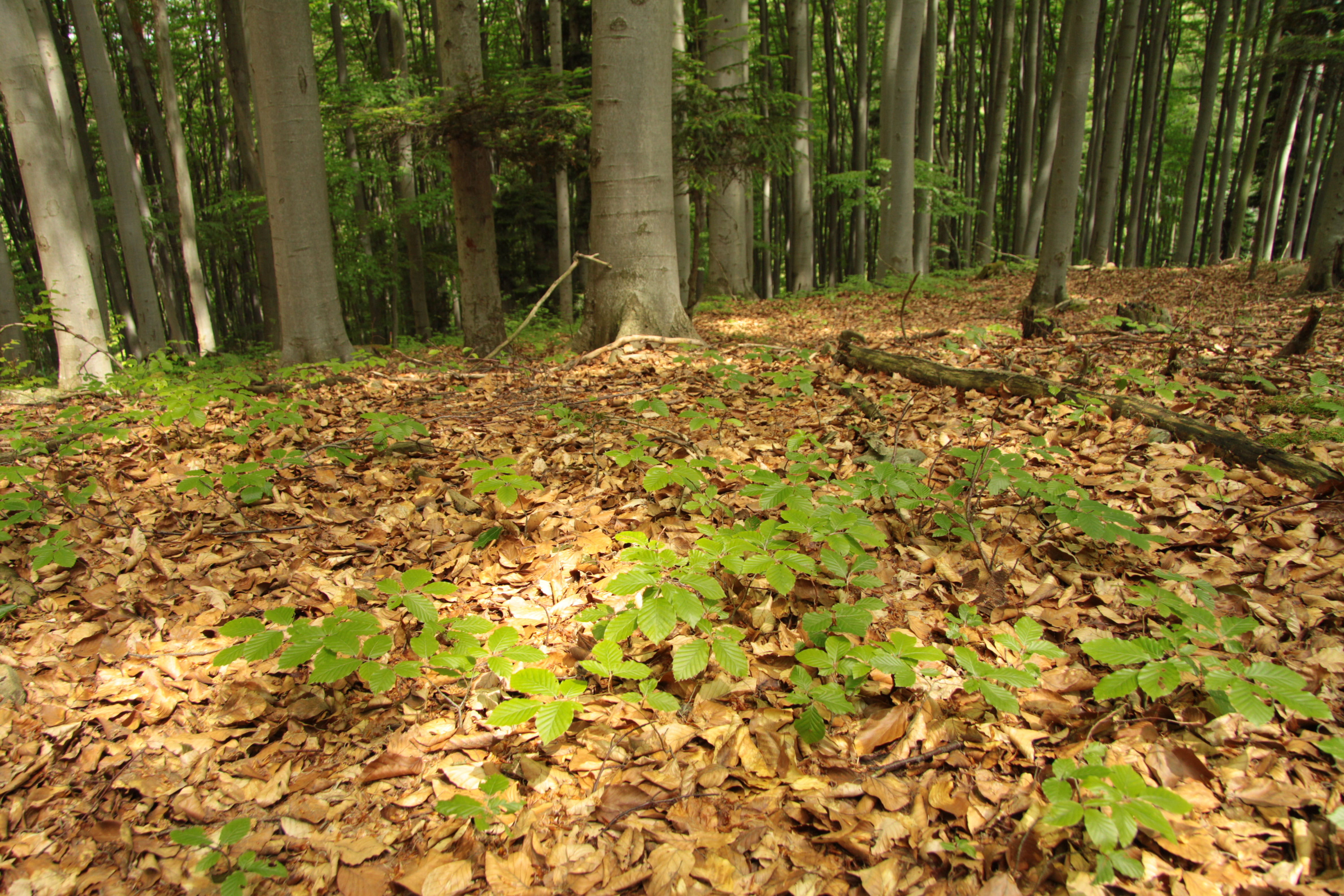 Natural monument U Piláta near Vitějovice village, Prachatice District, Czech Republic - Google Maps - Google Earth